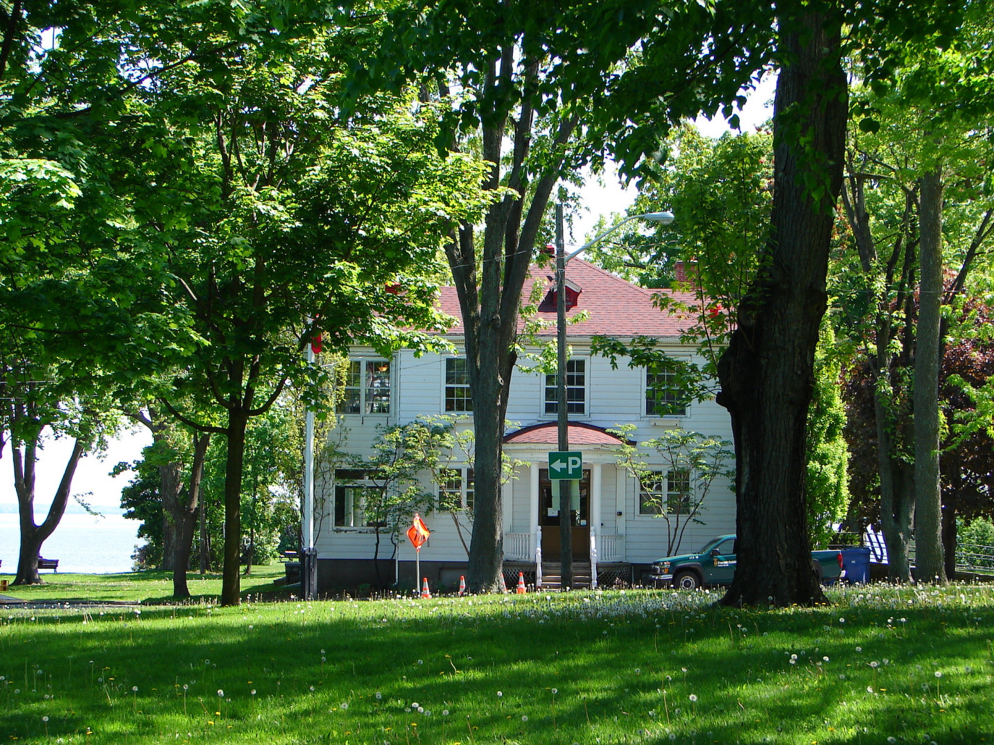 Centennial Hall, Beaconsfield, Quebec, Canada